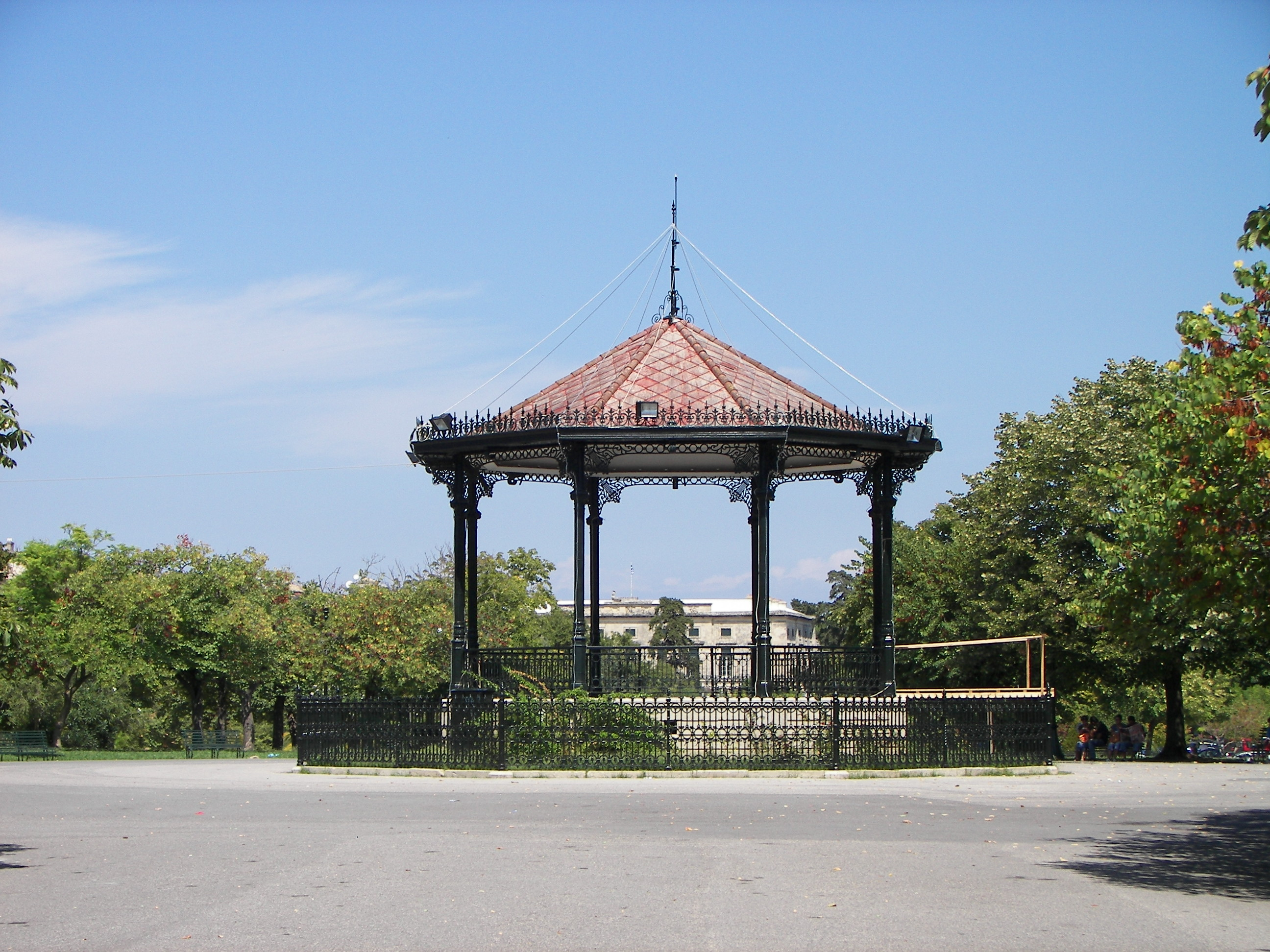 I am the author. Dr.K. 23:24, 8 September 2006 (UTC)